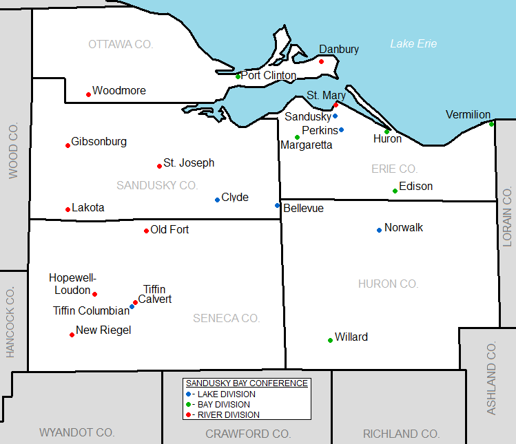 Map showing the locations and divisional breakdown of the SBC beginning in 2017-18.